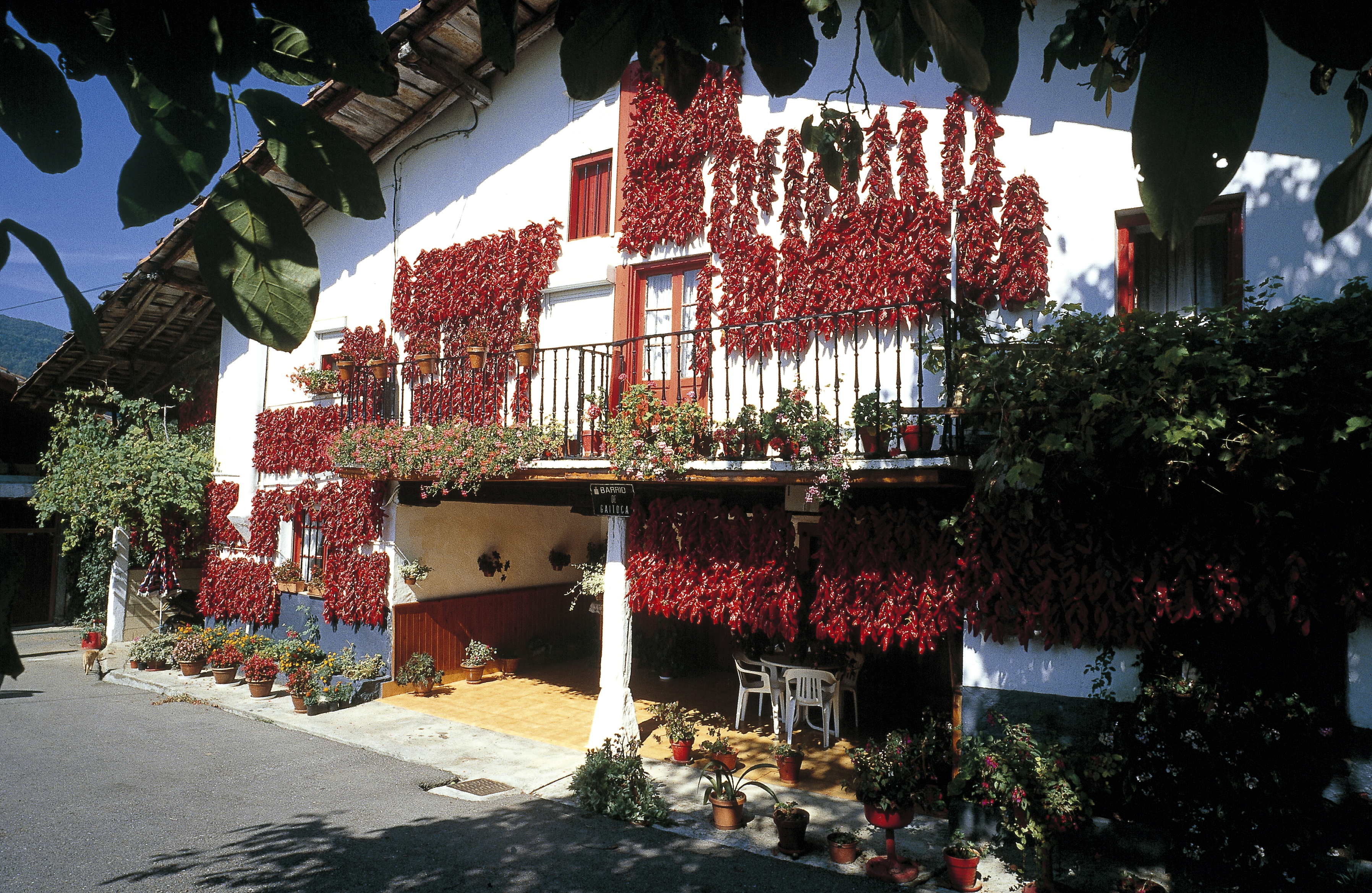 A basque farm with Gernika's peppers. Bizkaia, Basque Country.